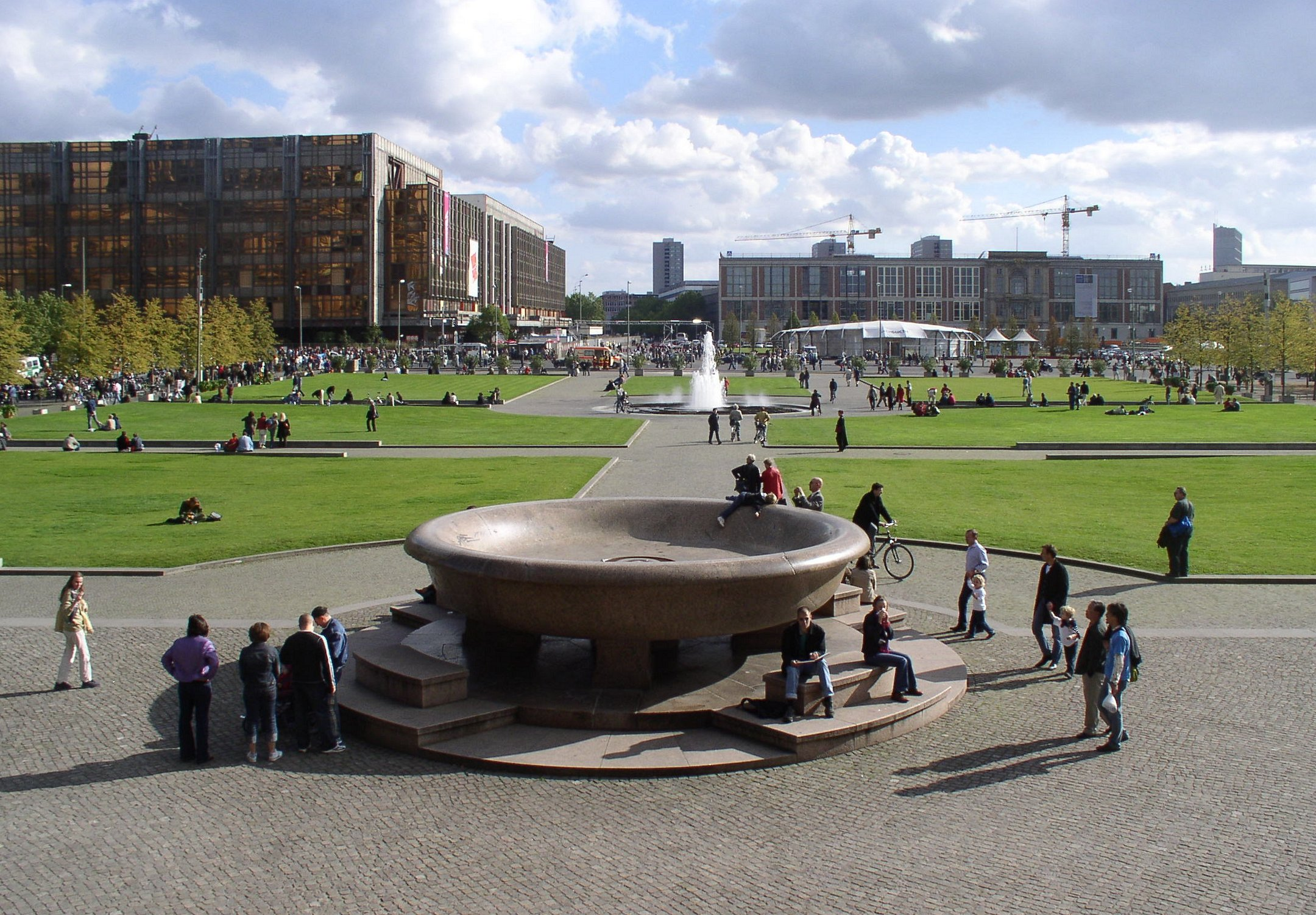 Berlin - Lustgarten - view from the stairs of the Altes Museum to Palast der Republik